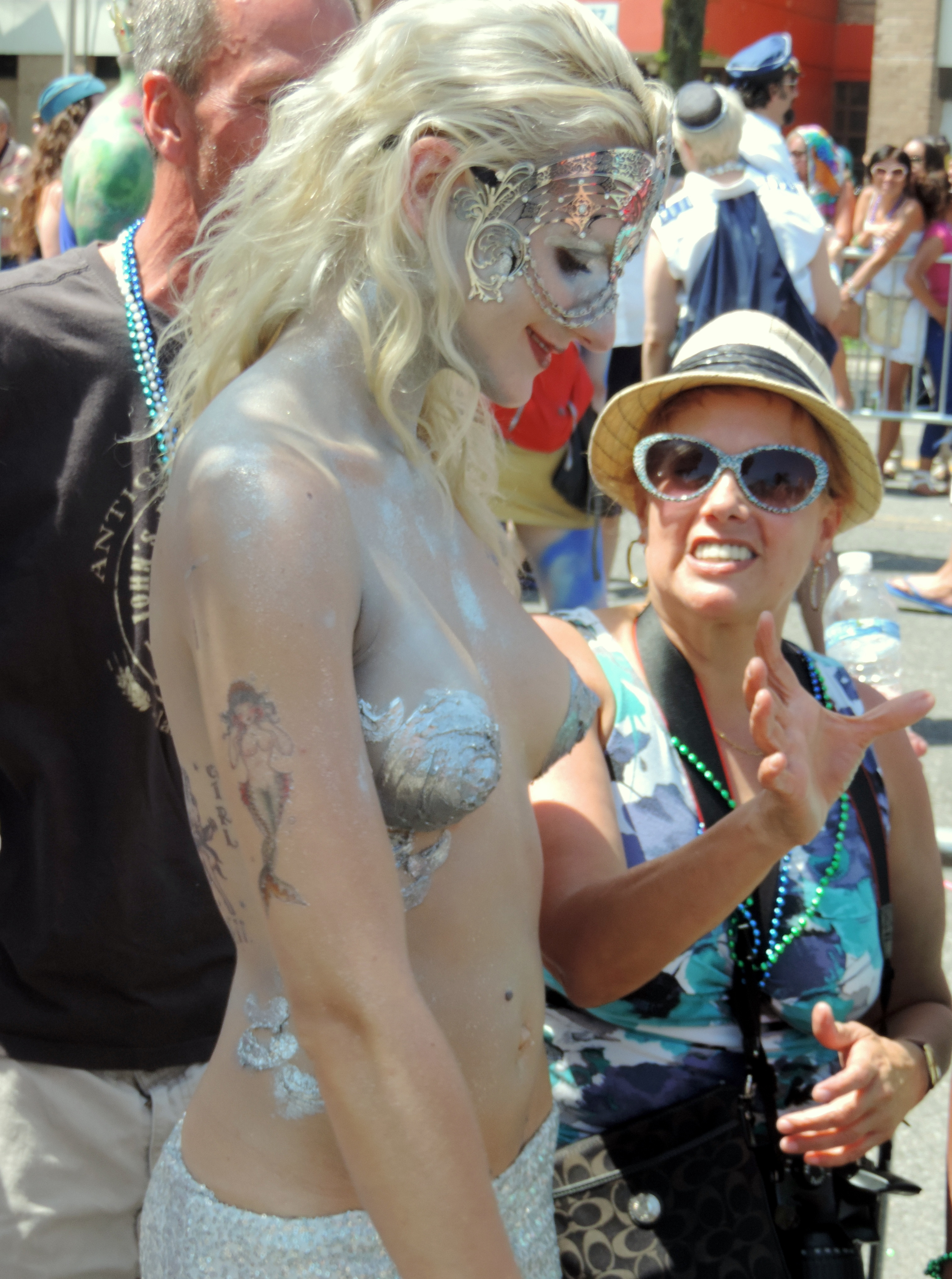 Looking north at fellow spectators on Surf Avenue.